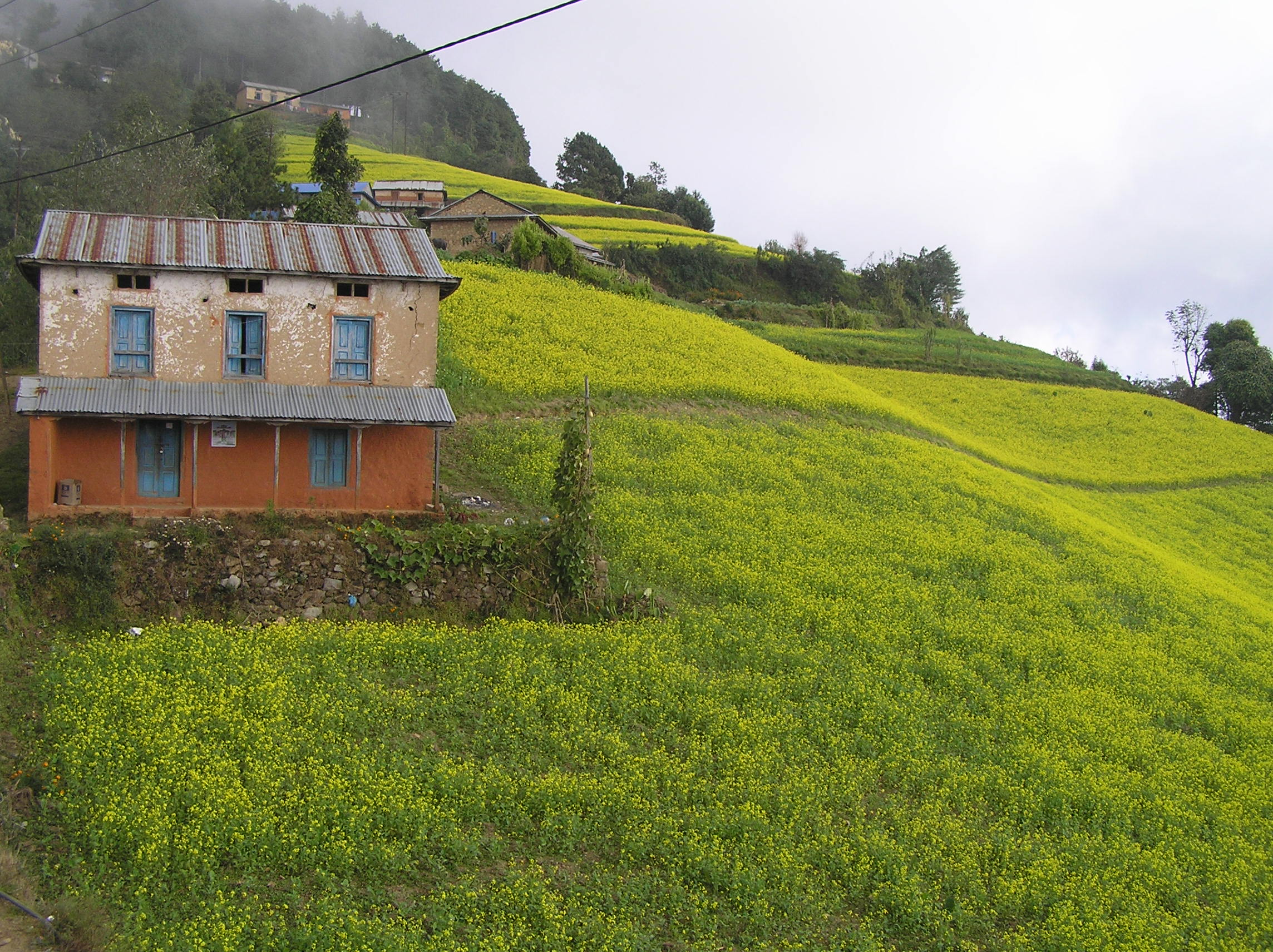 Mustard Field of Dalchoki